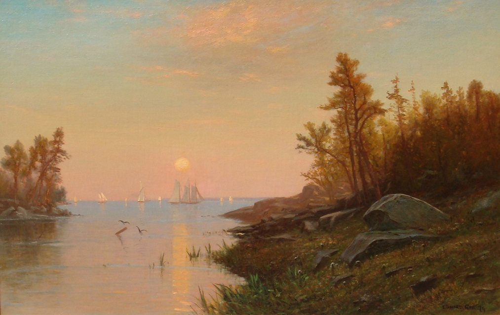 View of Long Island Sound Near Pelham Manor in New Rochelle, NY. (14 x 36" oil painting)